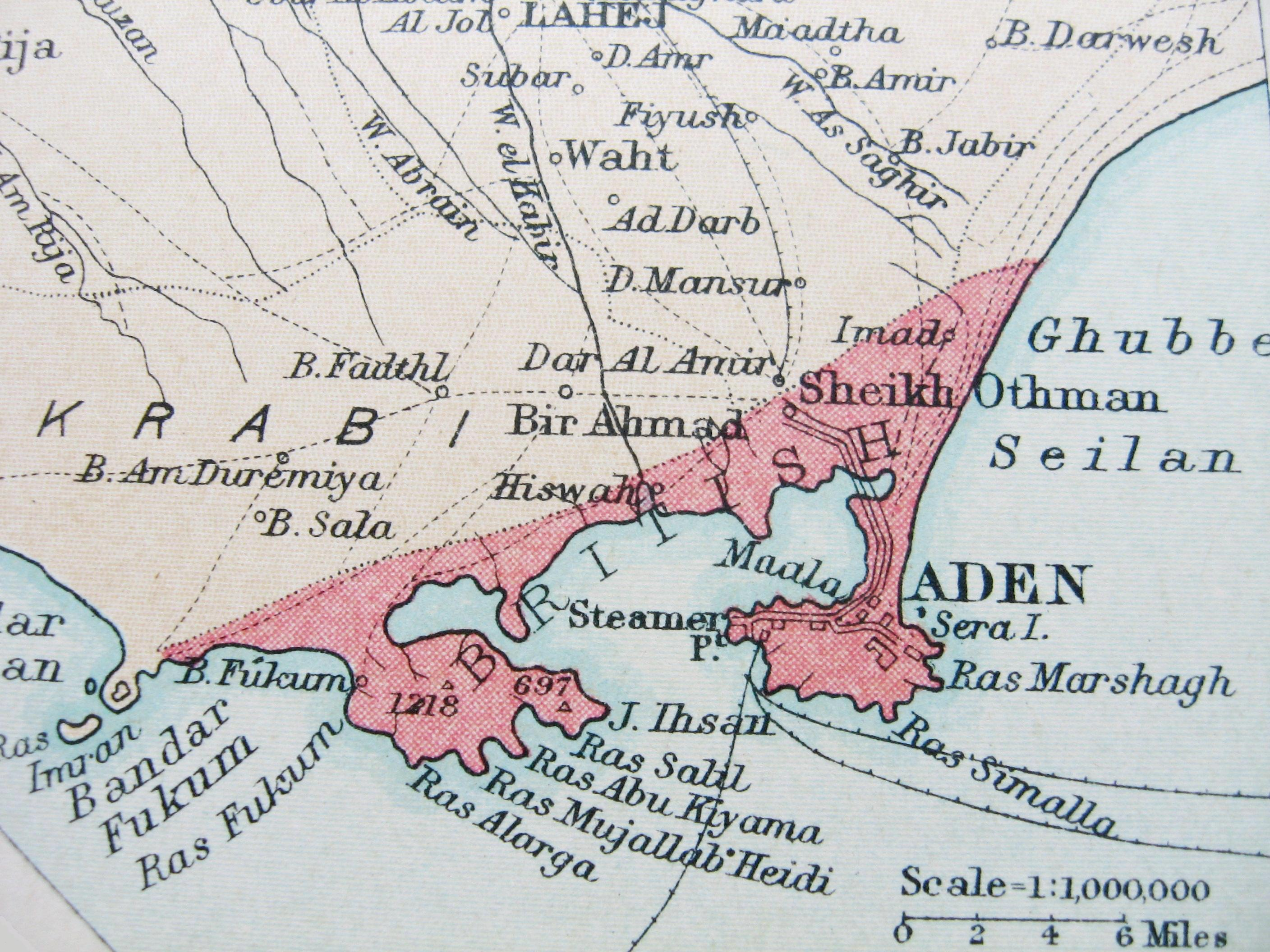 Segment of a 1922 map showing the 75 sq. mi. territory of British Aden, under direct British rule. The 'Aden Protectorate', the considerably larger hinterland, was under indirect British rule. The port city of Aden was captured by the East India Company in 1839 and until 1932, British Aden was a dependency of the Bombay Presidency ('Aden Settlement'). From 1932 to 1937, it was placed under the direct rule of the Viceroy of India ('Chief Commissioner's Province of Aden'). In 1937, the dependency became a Crown Colony ('Aden Colony') under the authority of the Colonial Office in London. In 1963, under the name 'State of Aden', it became a member of the British-protected Federation of South Arabia. Cropped from an insert of plate 78 (Egypt, the Nile and the Red Sea) of The Times Survey Atlas of the World published in 1922.